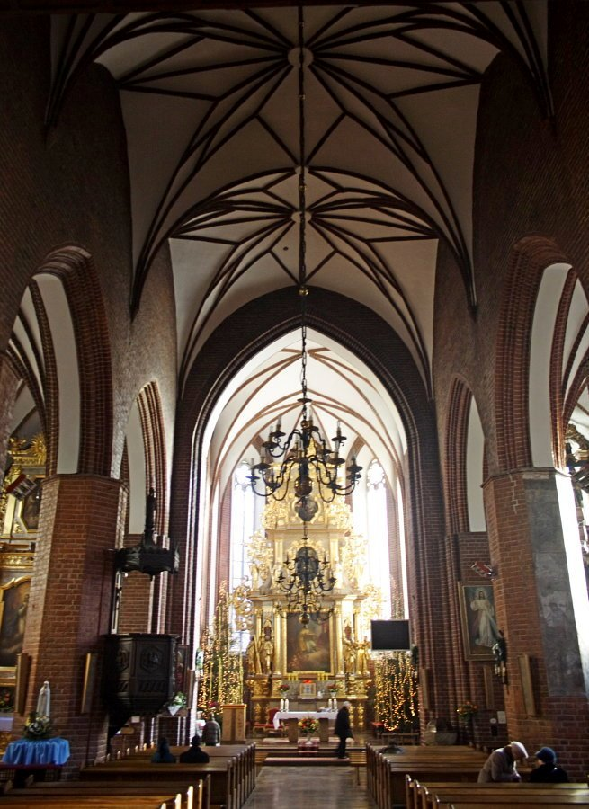 Grudziądz, church of St. Nicholas